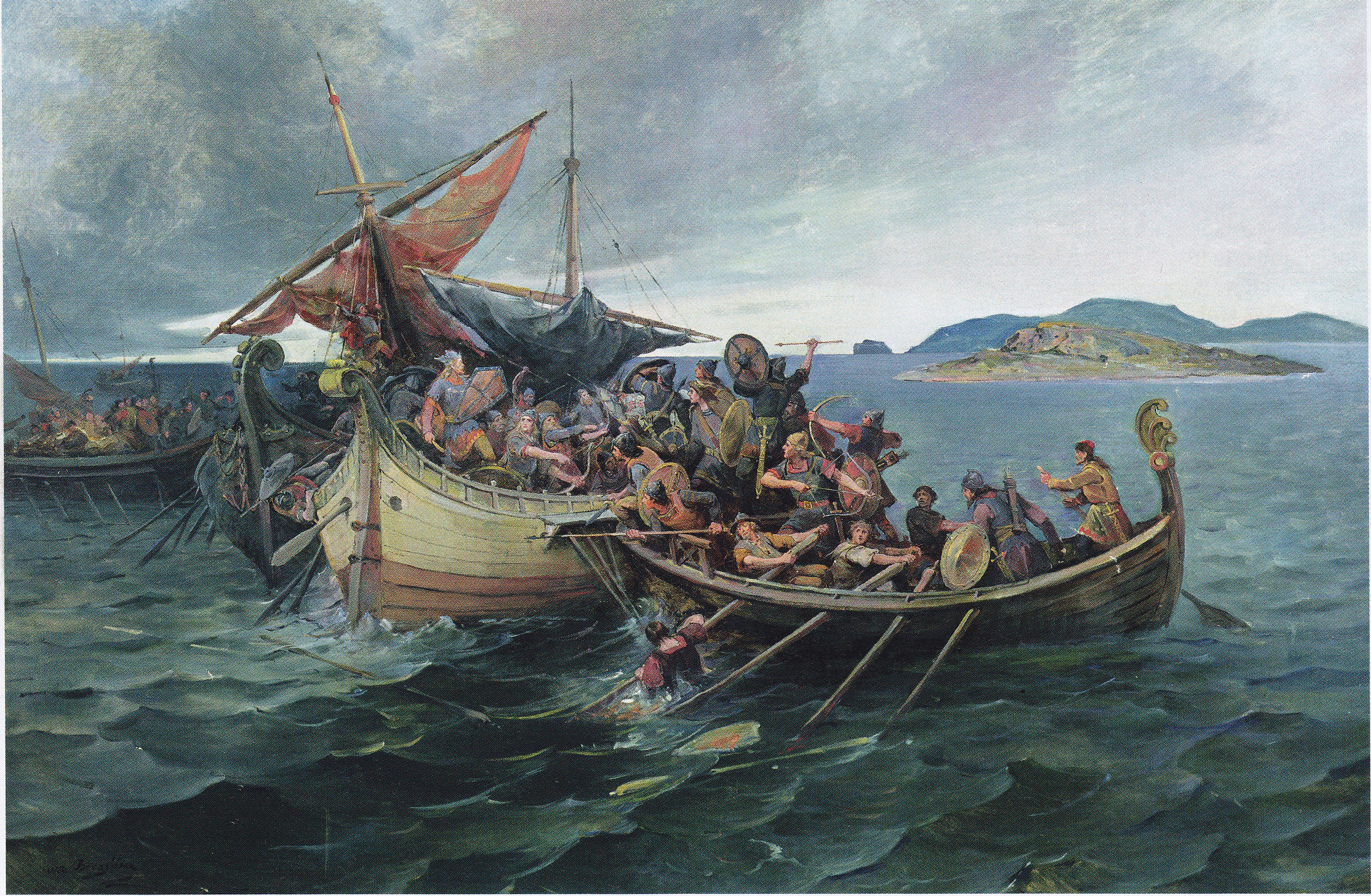 The Jomsvikings (small ship) are joining the Battle of Svolder.